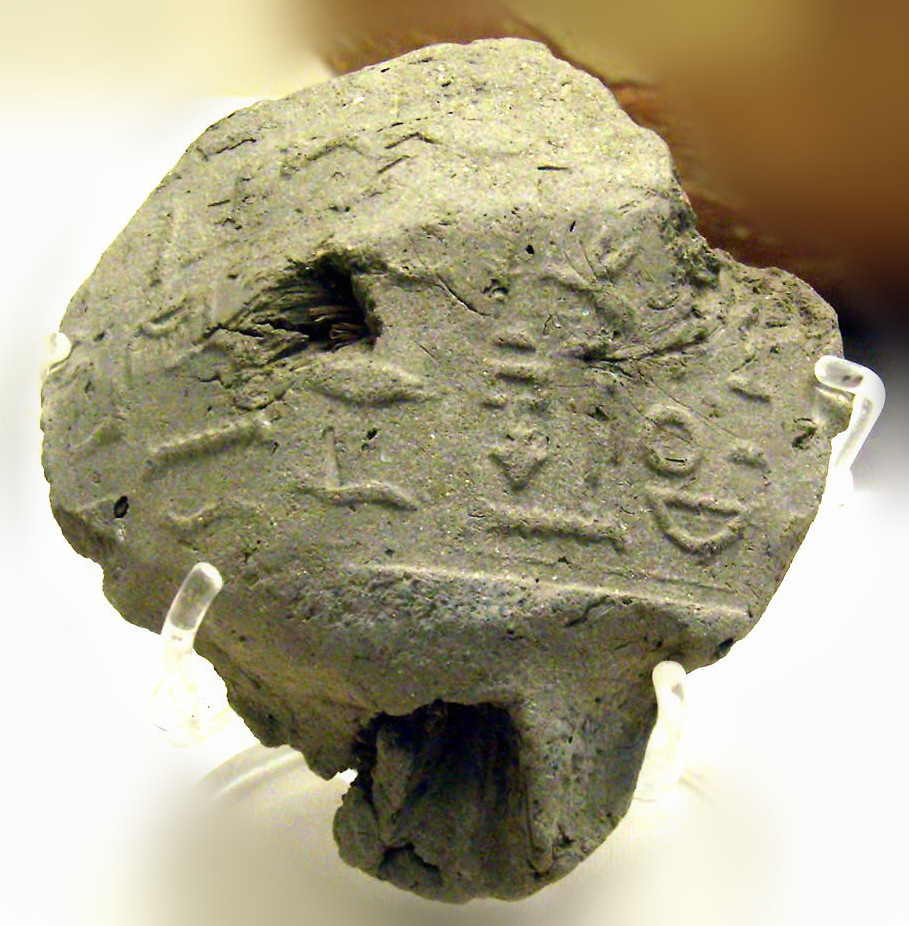 sealimpression, found at Abydos, naming king Peribsen of the Ancient Egyptian 2nd Dynasty